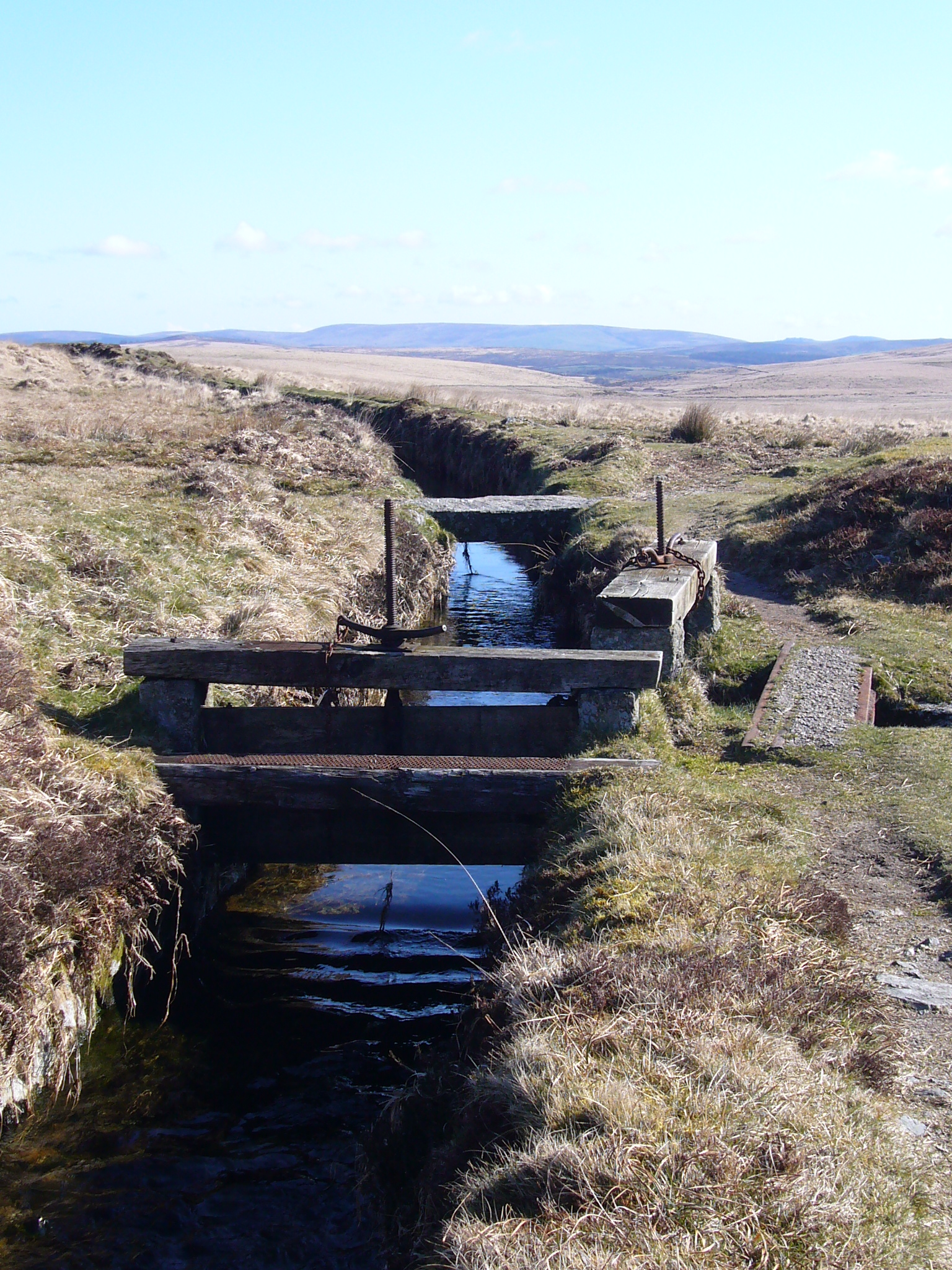 This shows the Devoport leat on Dartmoor close to Nun's Cross Farm looking up stream. Sluices to control the flow can be seen as can a clapper bridge just beyond. This leat is taken from the West Dart & Cowsic rivers and flowed by gravity to Devonport. The length is over 34km and the leat was in use from around the start of the 18th century.